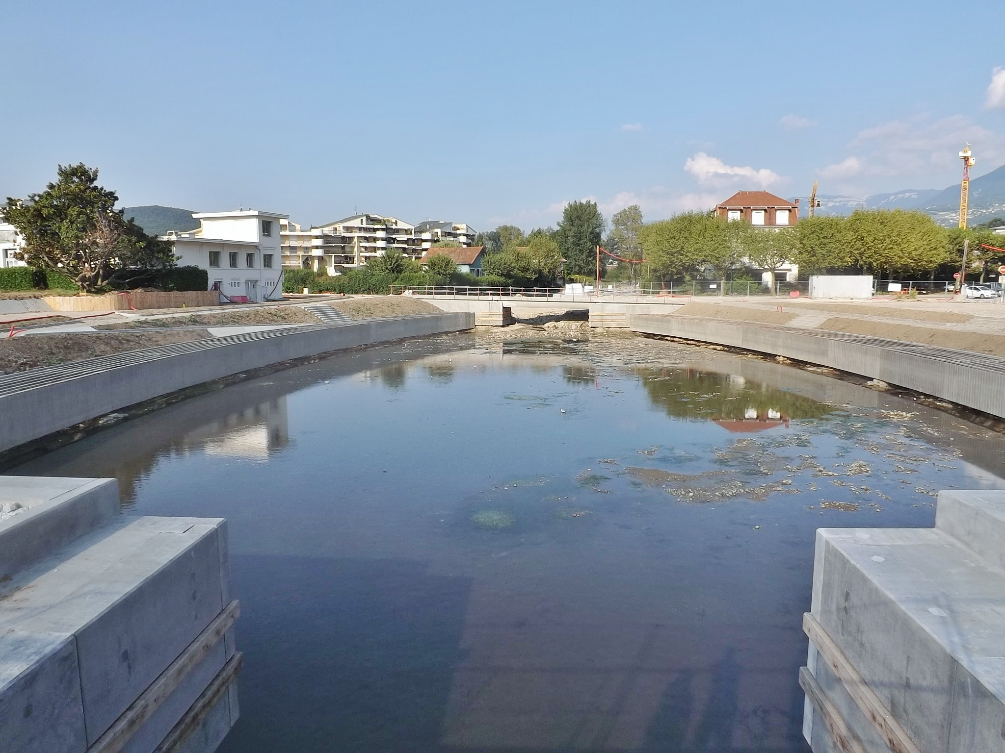 Sight, in 2013, of the civil engineering of the river Tillet mouth to the lac du Bourget lake in Aix-les-Bains, Savoie, France.